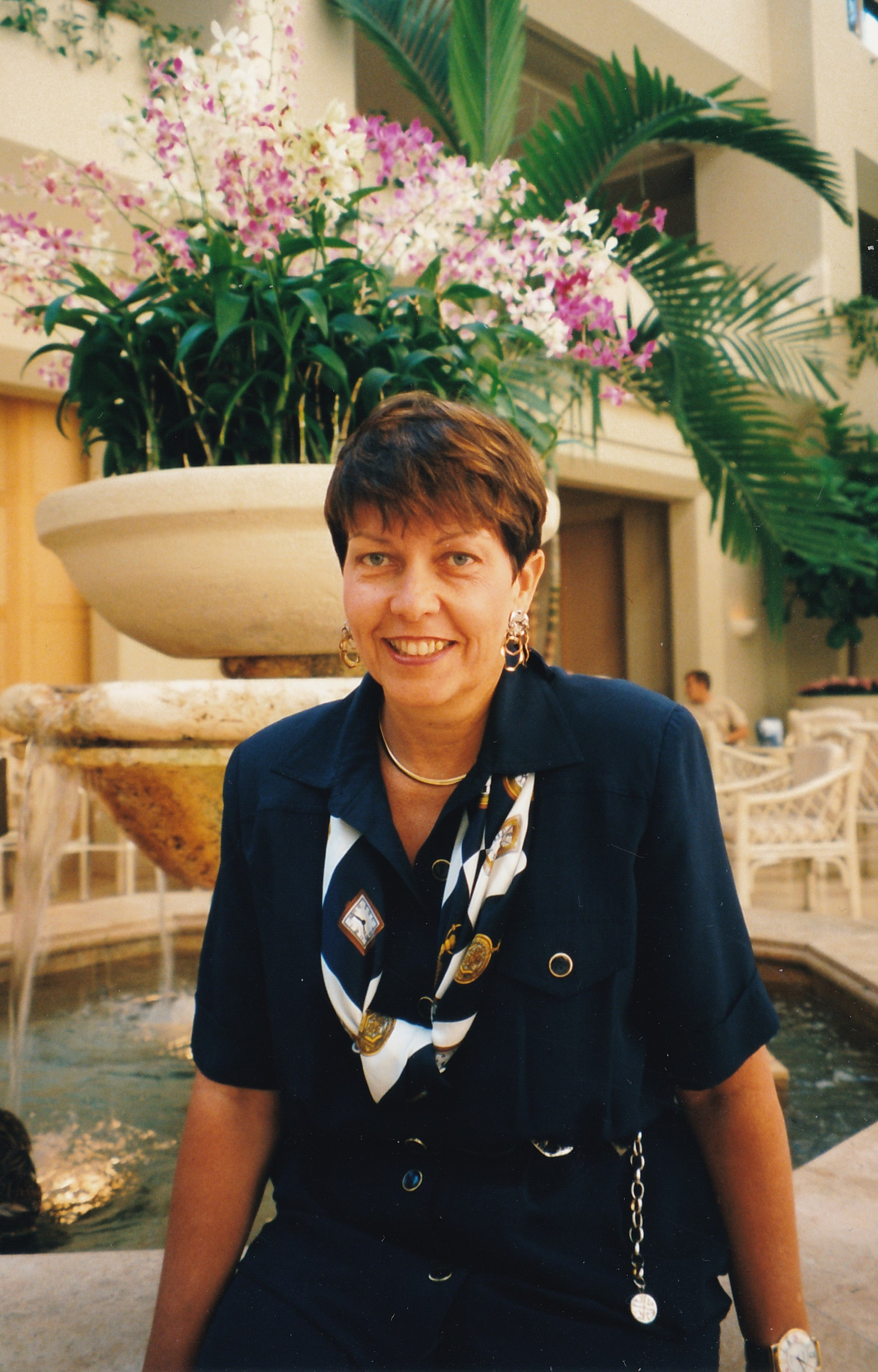 Barbara Seagram (born 1949 in Barbados, West Indies) is a Canadian Registered Nurse and bridge writer (the game of contract bridge), teacher, and administrator